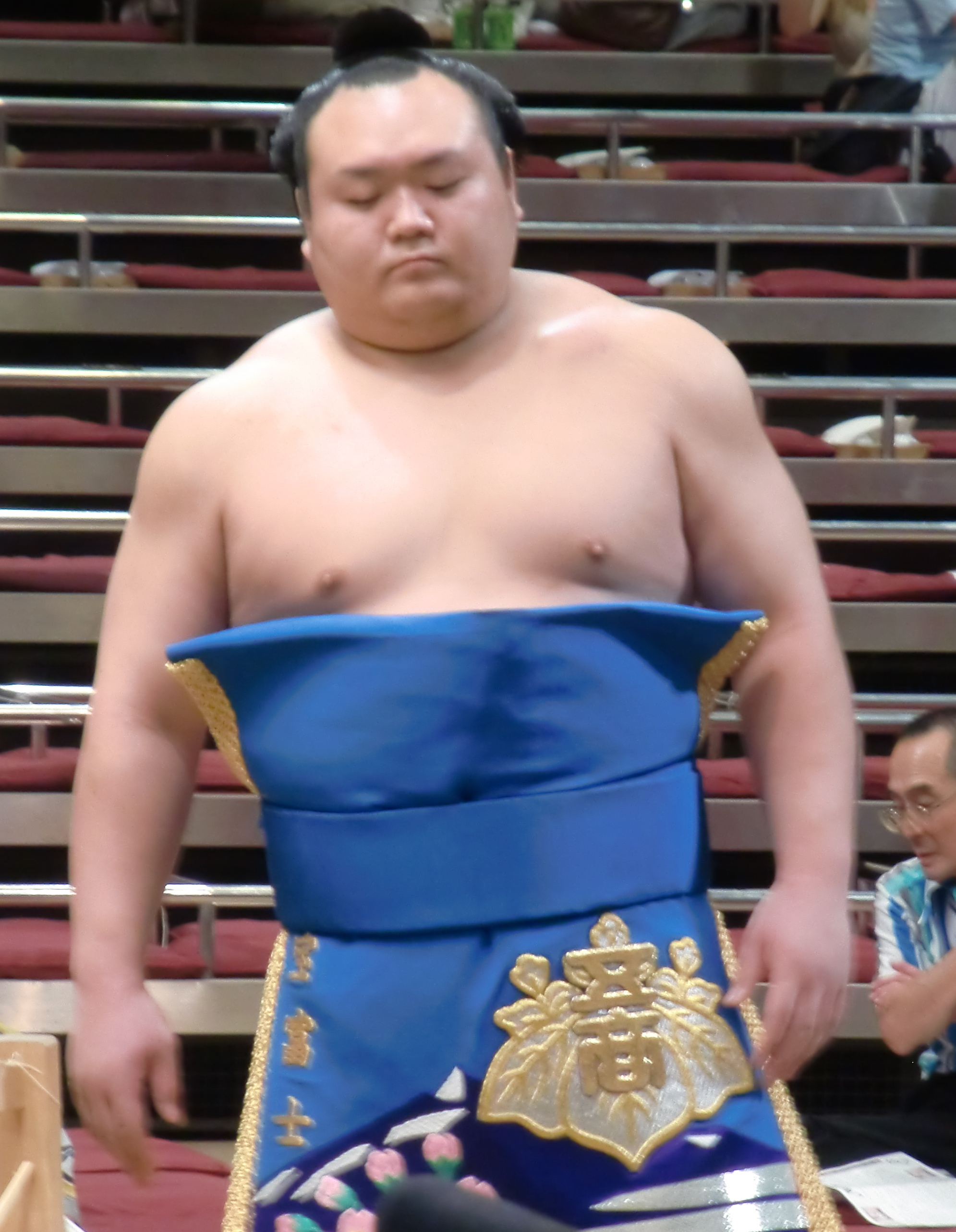 taken at 2011 Sep tournament